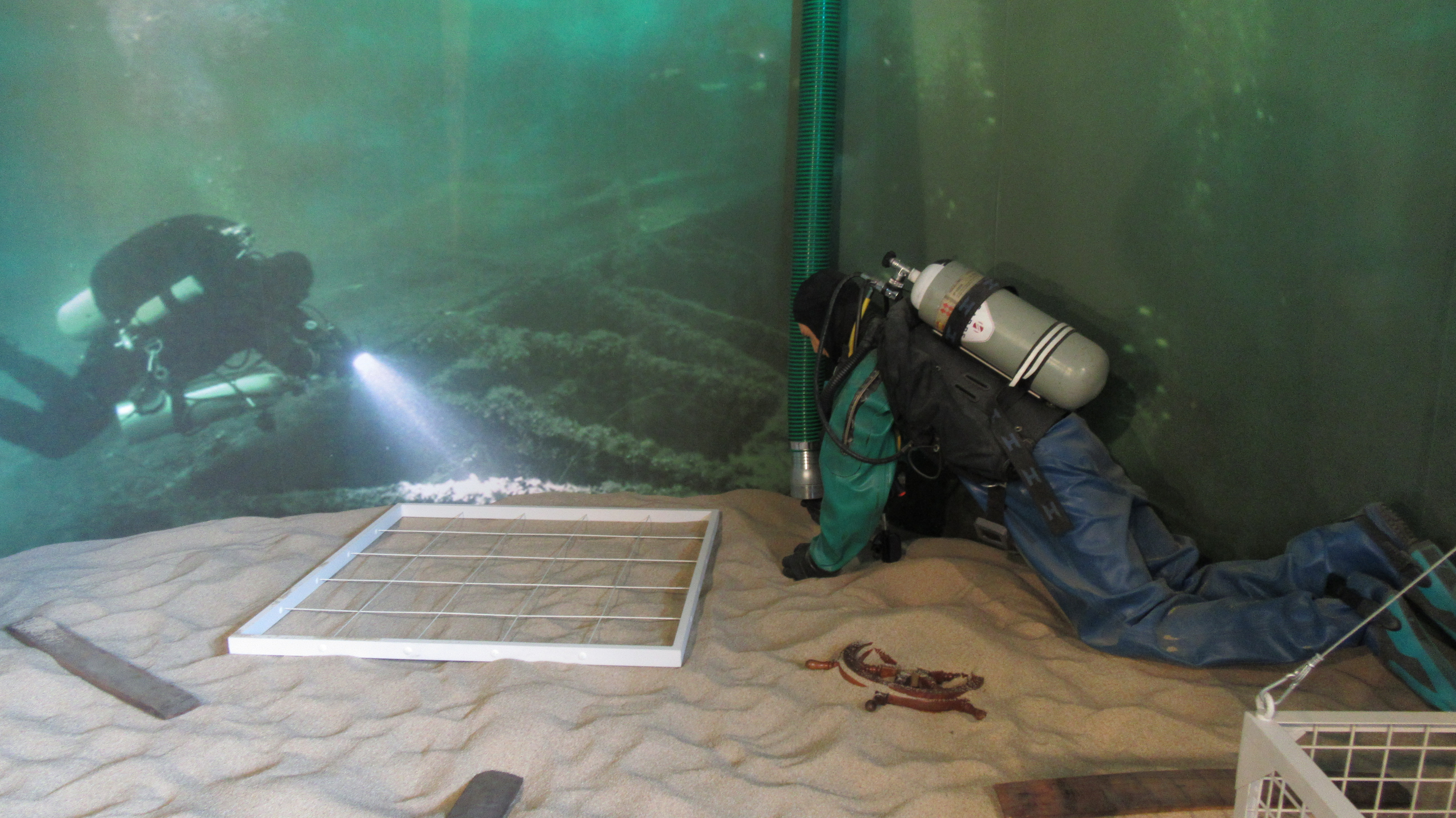 Diorama showing work of underwater arcaeologist. Exhibit in National Maritime Museum in Gdańsk, Poland.